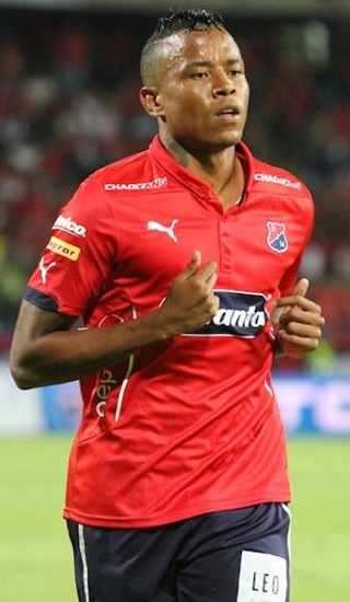 John Pajoy